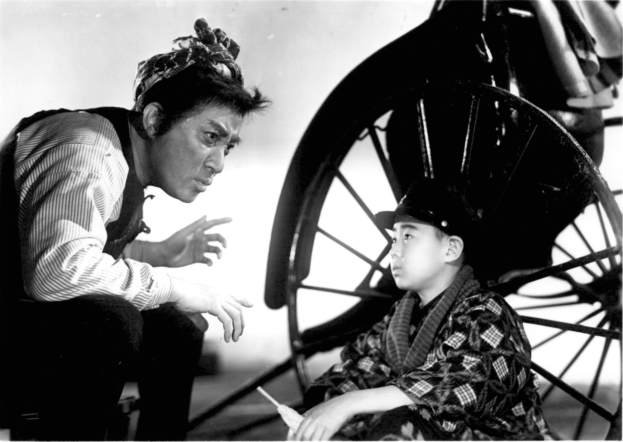 Tsumasaburō Bandō and Hiroyuki Nagato in Muhōmatsu no isshō (無法松の一生) directed by Hiroshi Inagaki (1943)